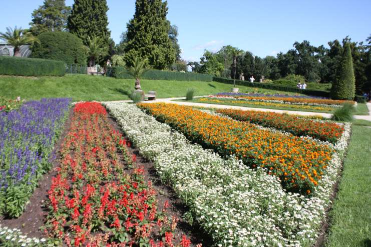 Lednice na Moravě, Czech republic, english park